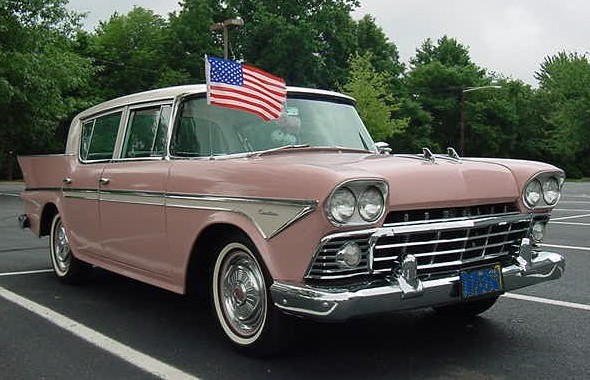 1958 Rambler Custom (built by American Motors Corporation) four-door sedan, finished in two-tone pink and white. Picture taken at the 2003 AMCRC show in Somerset, New Jersey.